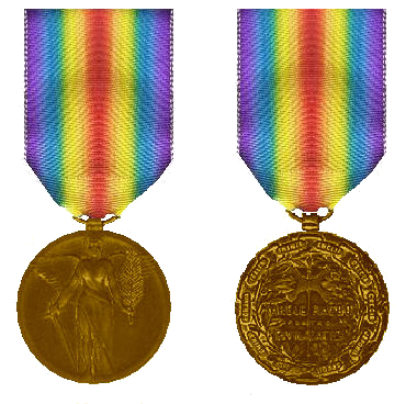 WWI Victory Medal, Romanian Version (1921)